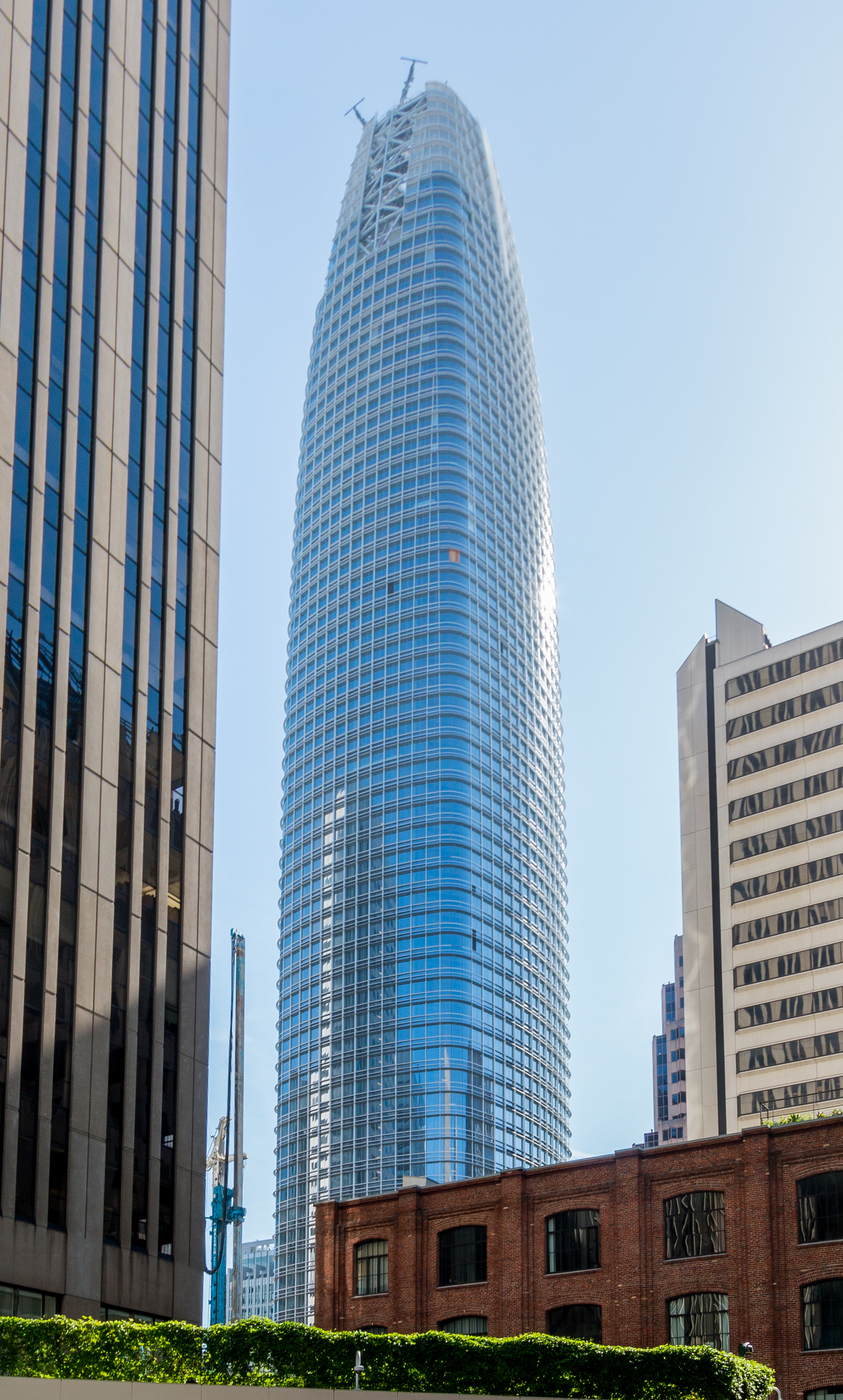 An image of Salesforce Tower under construction in San Francisco in late 2017